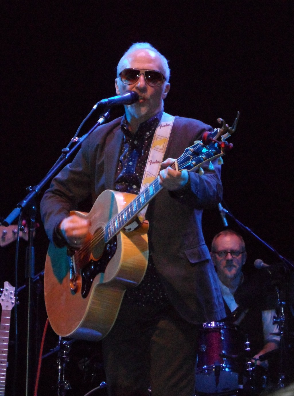 Playing with Graham Parker and the Rumour at the Park West in Chicago on December 18th, 2012